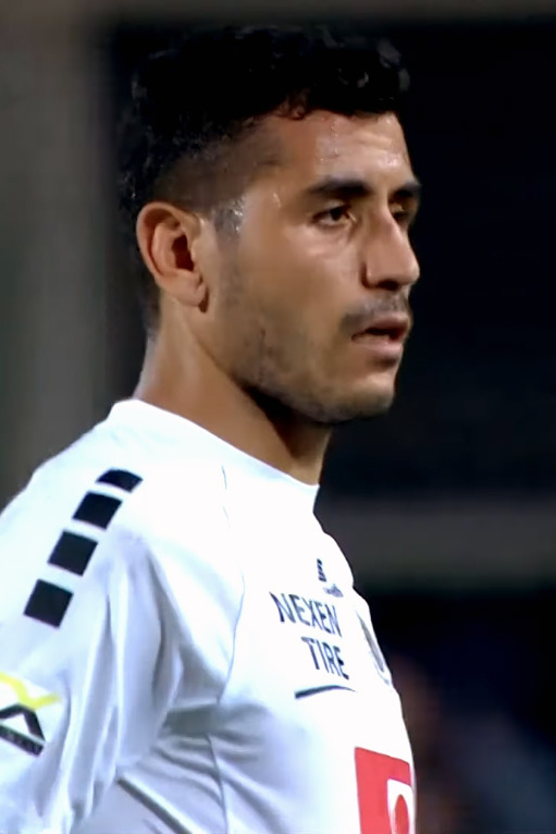 Kassem El Zein with Nejmeh against Ansar during the 2019-20 Lebanese Premier League season